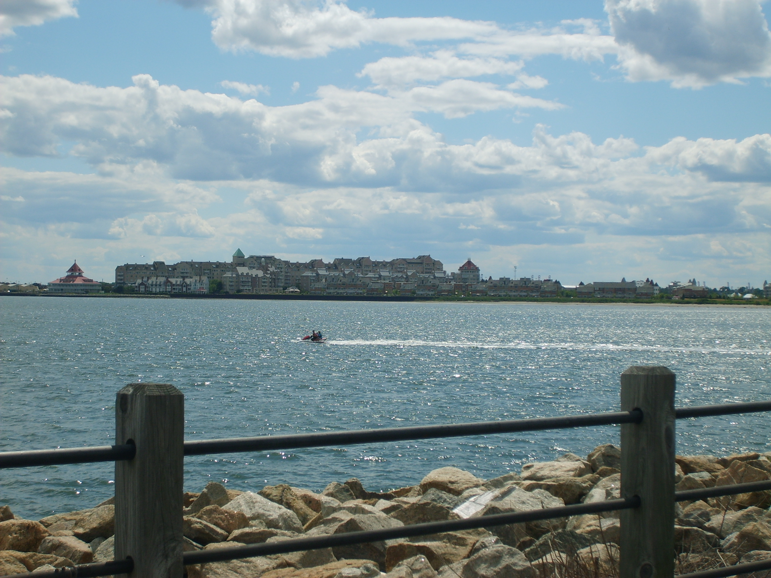 A view of Port Liberte, looking south from Liberty State Park in July.